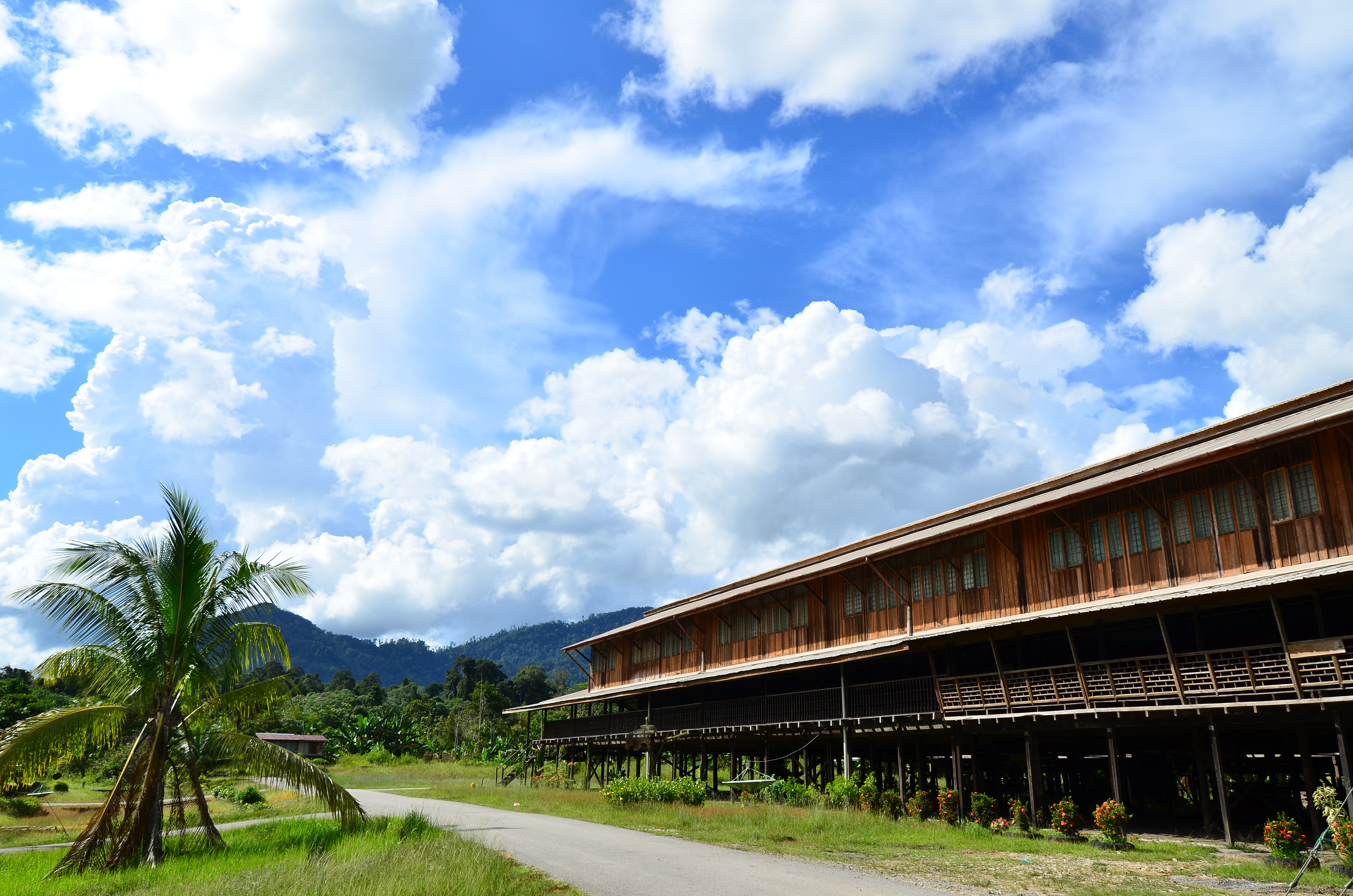 Uma Daro is one of the 15 longhouses located in the Sungai Asap resettlement area at Belaga District, Sarawak, Malaysia . The inhabitants of the longhouses were originally displaced natives from the flooded area of Bakun Dam.